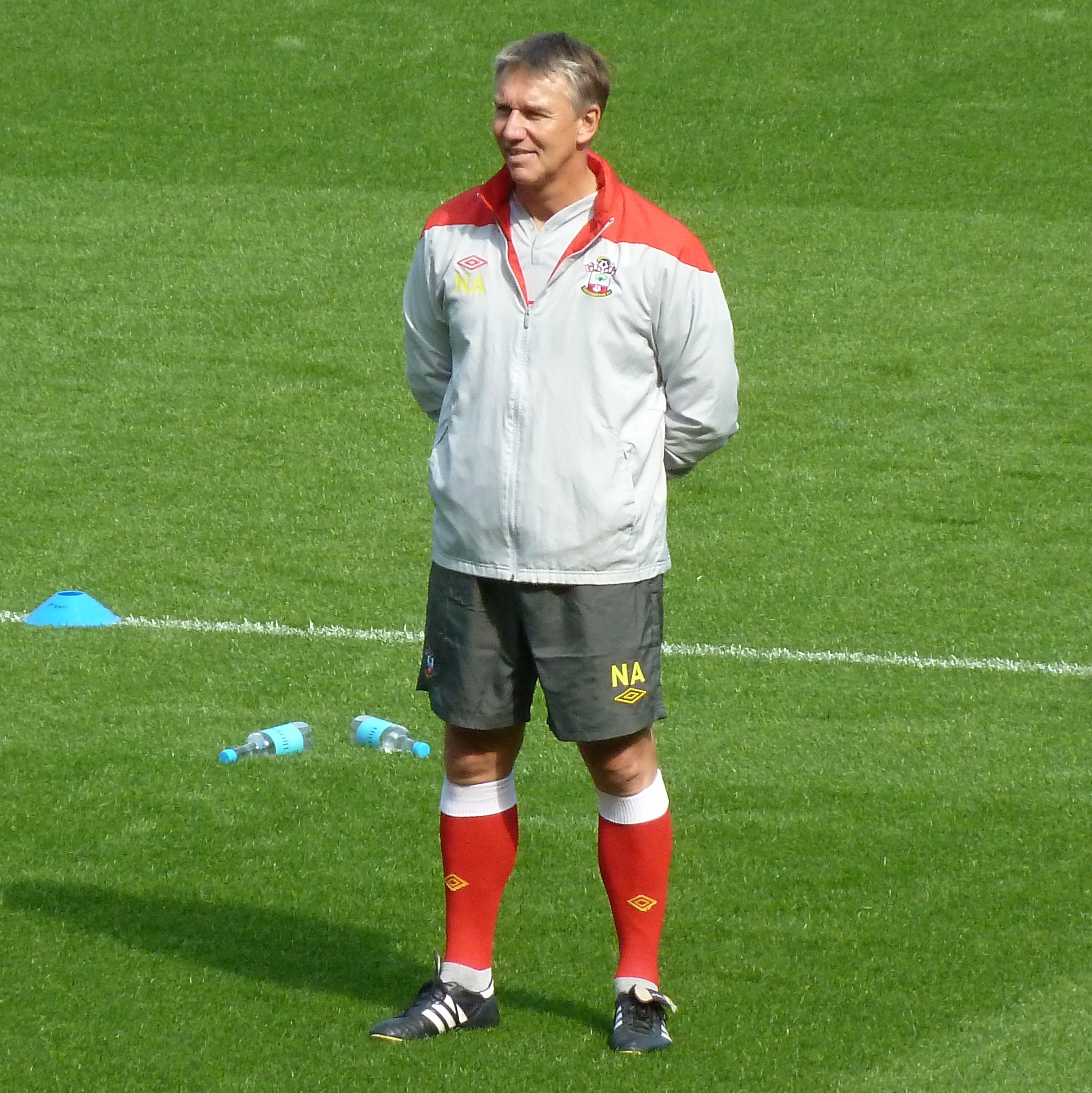 Southampton FC manager Nigel Adkins leading training in September 2011